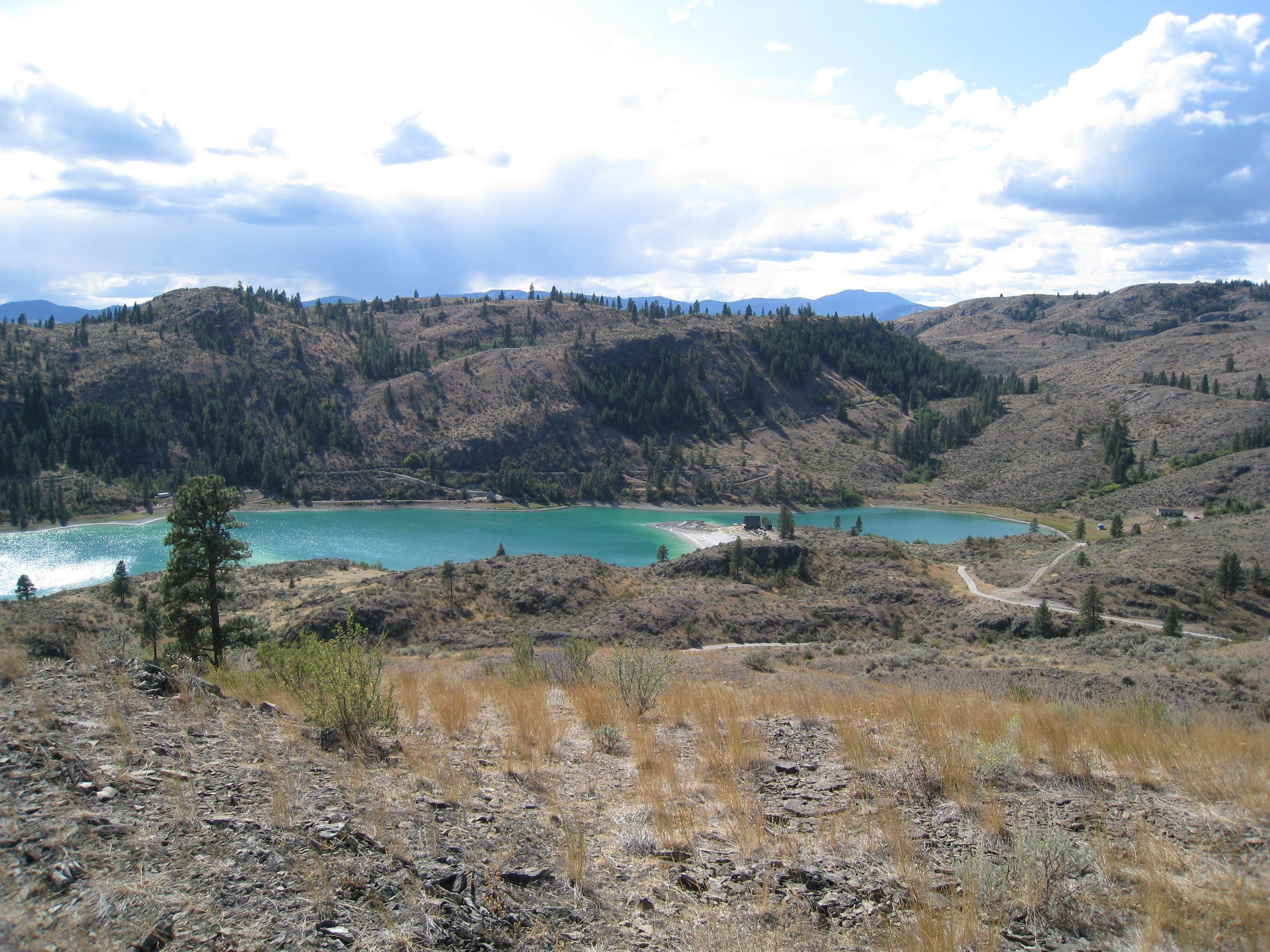 The Omak Lake, a lake southeast of Omak, Washington.